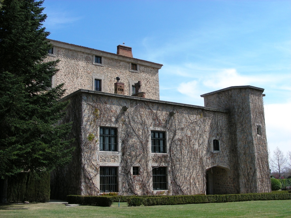 Finca El Campillo, El Escorial, Community of Madrid, Spain